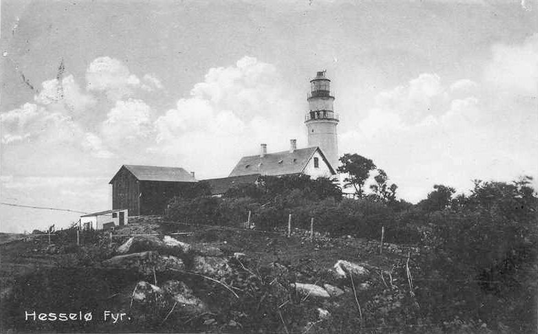 Lighthouse on the island of Hesselø, Kattegat, Danmark